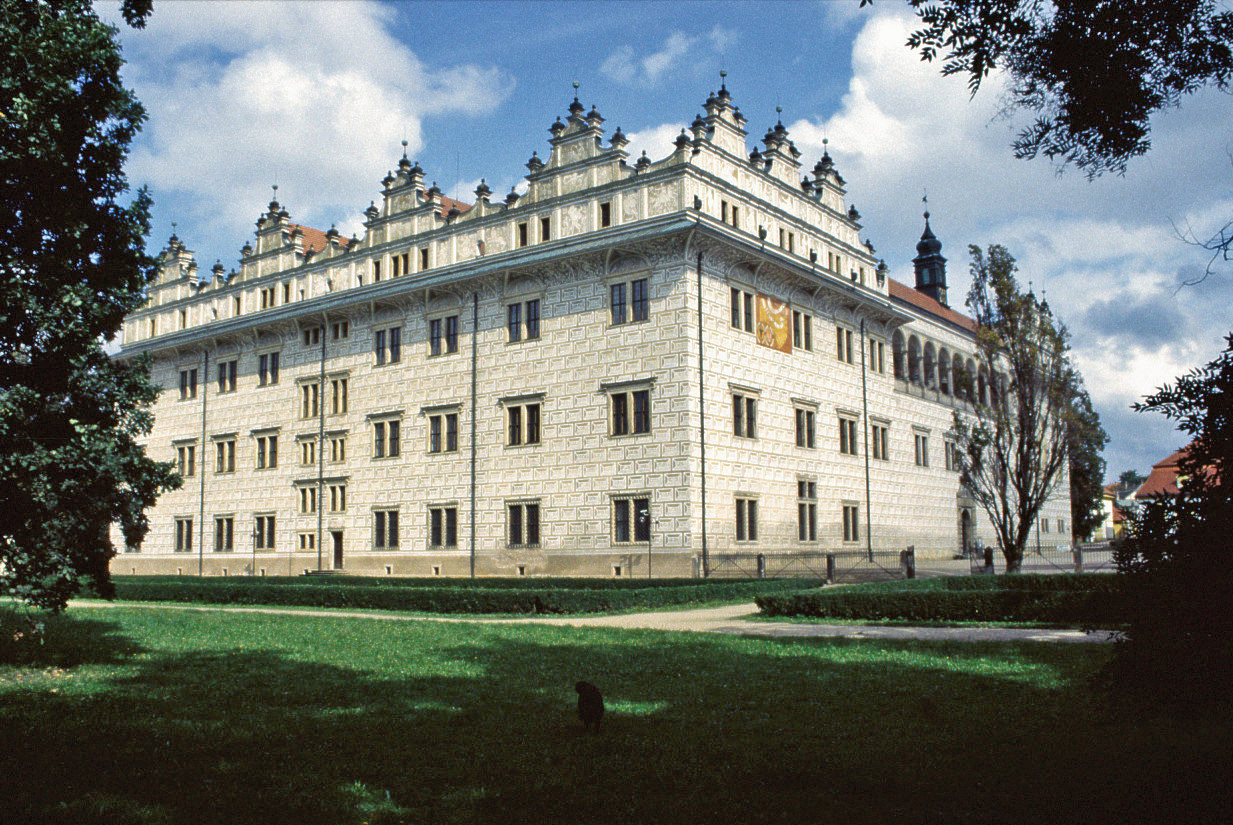 Litomyšl, castle